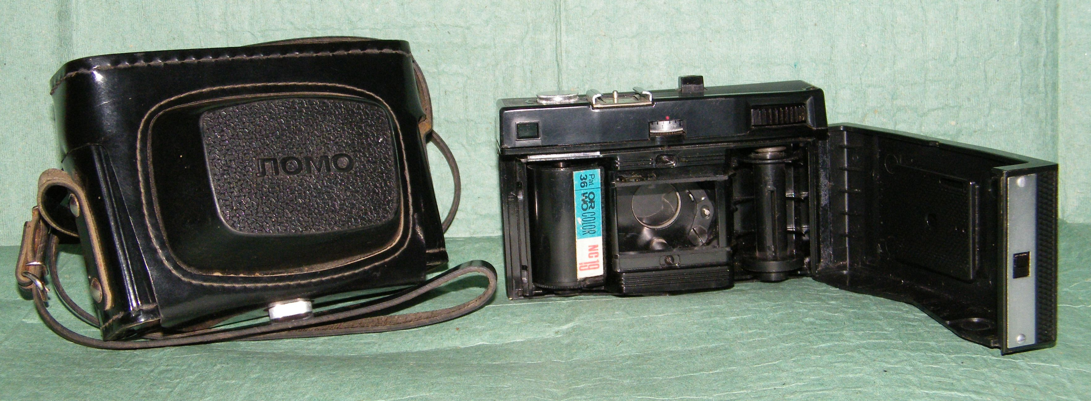 Smena 8M